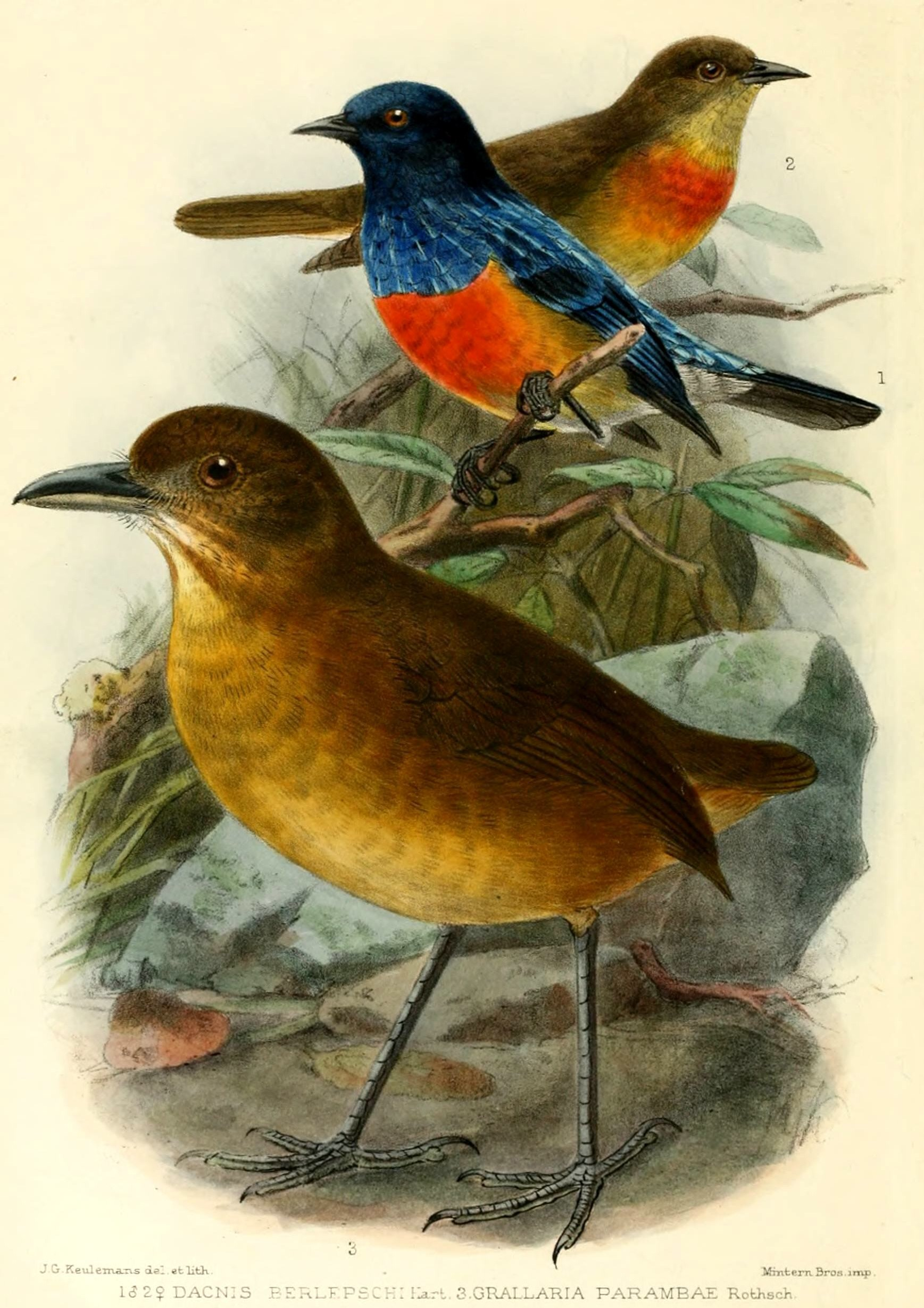 « Dacnis berlepschi » = Dacnis berlepschi (Scarlet-breasted Dacnis) « Grallaria parambae » = Grallaria haplonota parambae (Subspecies of Plain-backed Antpitta)